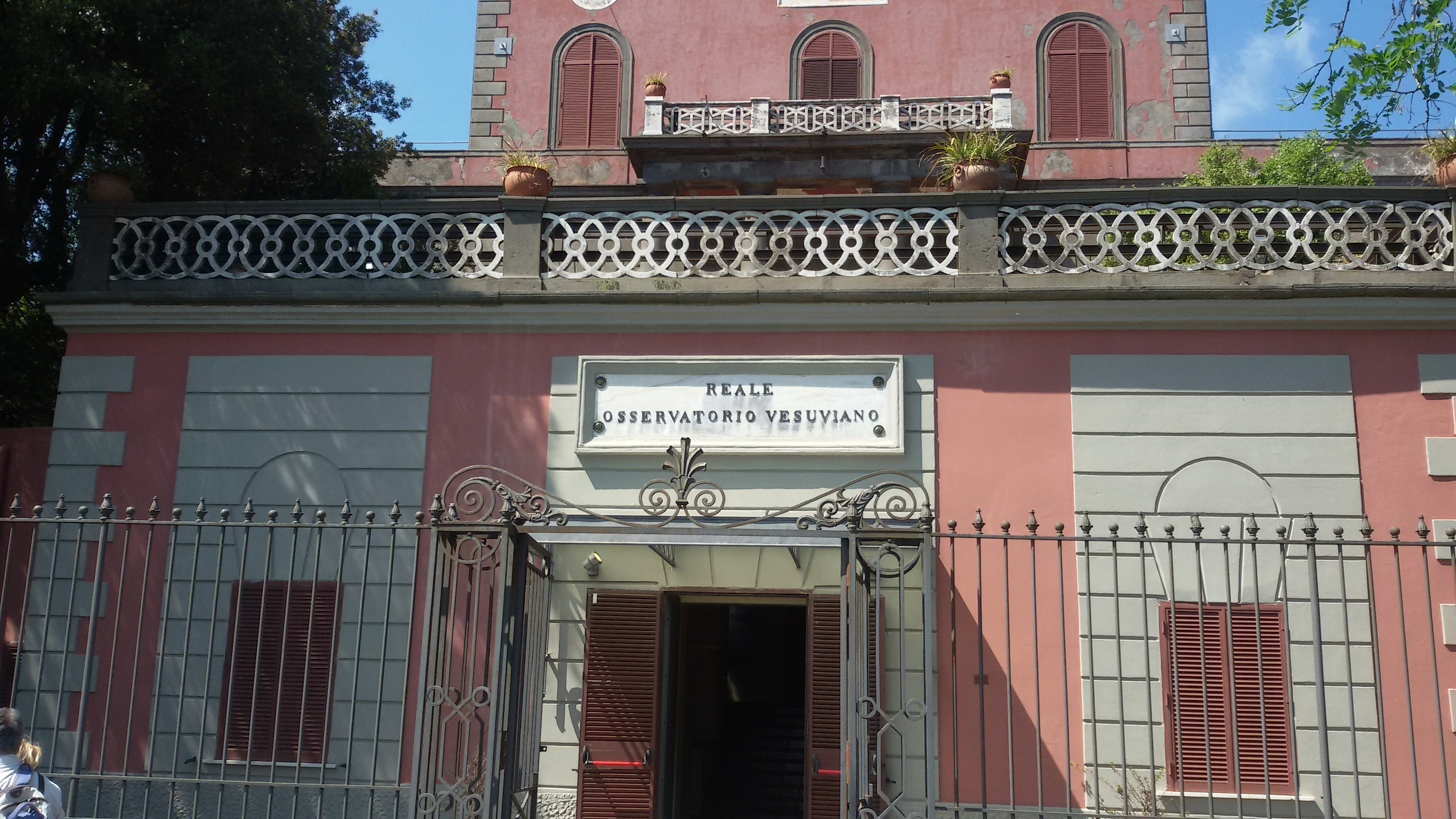 Royal Vesuvius Observatory: entry